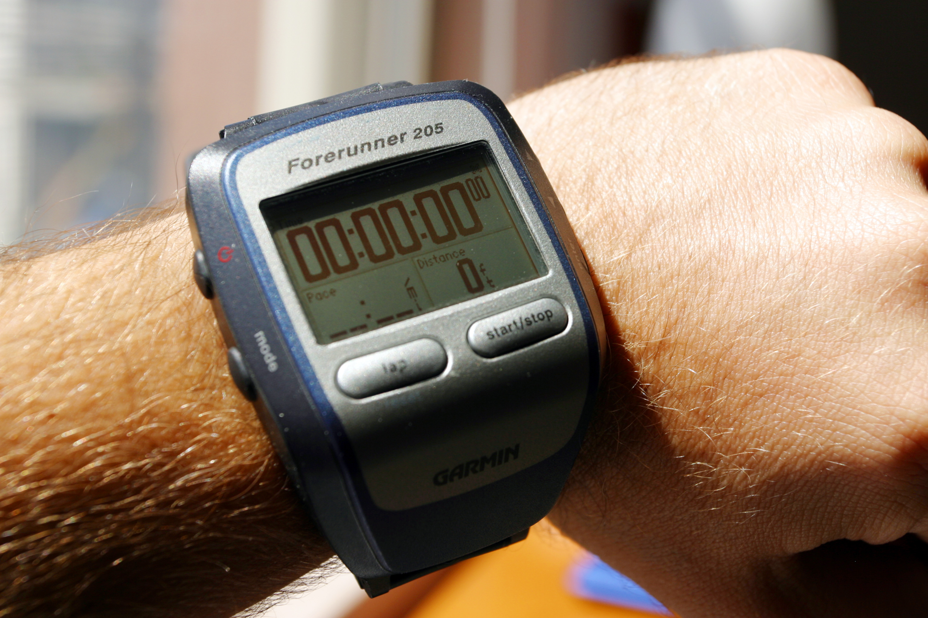 Image of the Garmin Forerunner 205 being worn, created by user:Brighterorange